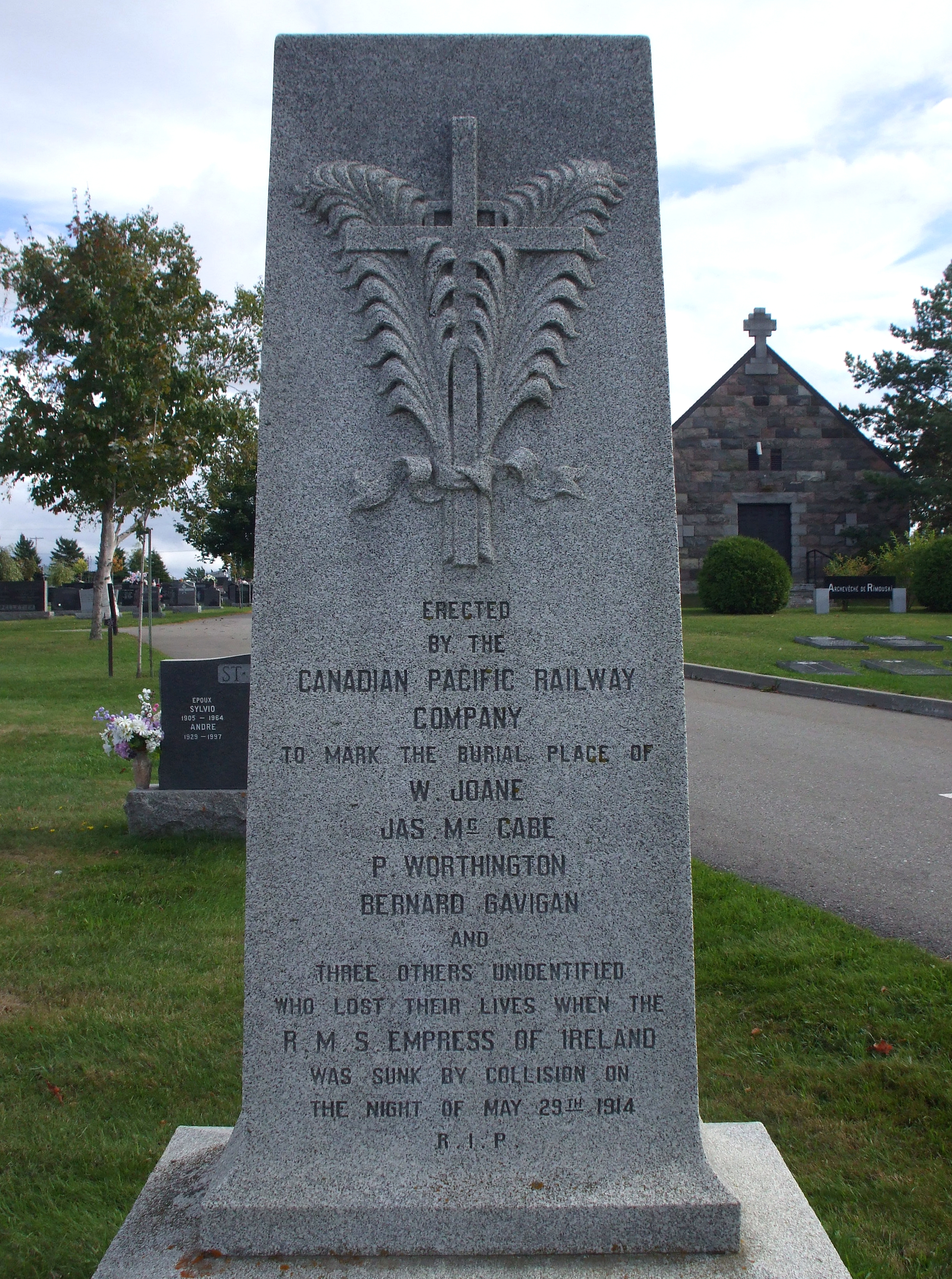 In memory, erected by the Canadian Pacific Raylway Compagny. For the deads of Empress of Ireland liner. Photo taken at Rimouski St-Germain cemetery , Quebec, Canada.